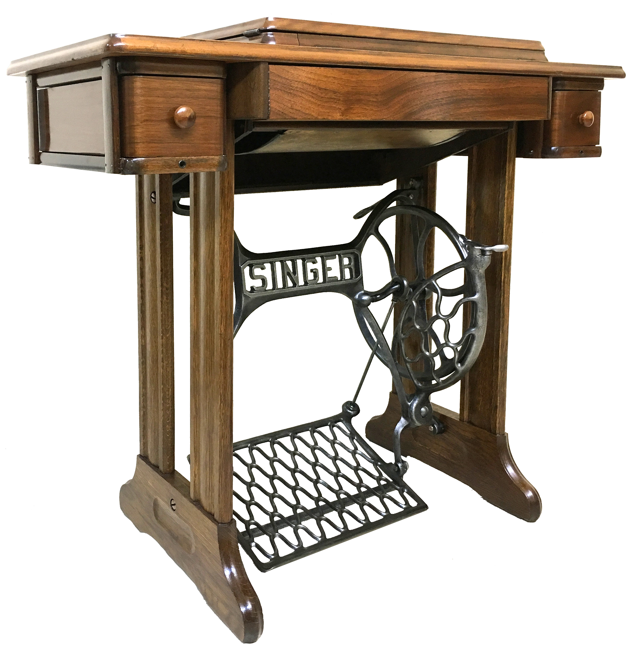 Restored 1930s SINGER Drop Head Treadle Table with wooden legs (walnut), and cast iron mid section, foot pedal and fly wheel. The top wooden board unlocks with a key and can then open to the left acting as an extension leaf thus widens the table surface. The sewing machine could be folded inside the table compartment, just under the table top when was not in use and the treadle table could be used as a table. This one incorporates 3 drawers (2 at each side with locks and 1 in the middle) it was also available with 5 or 7 drawers.